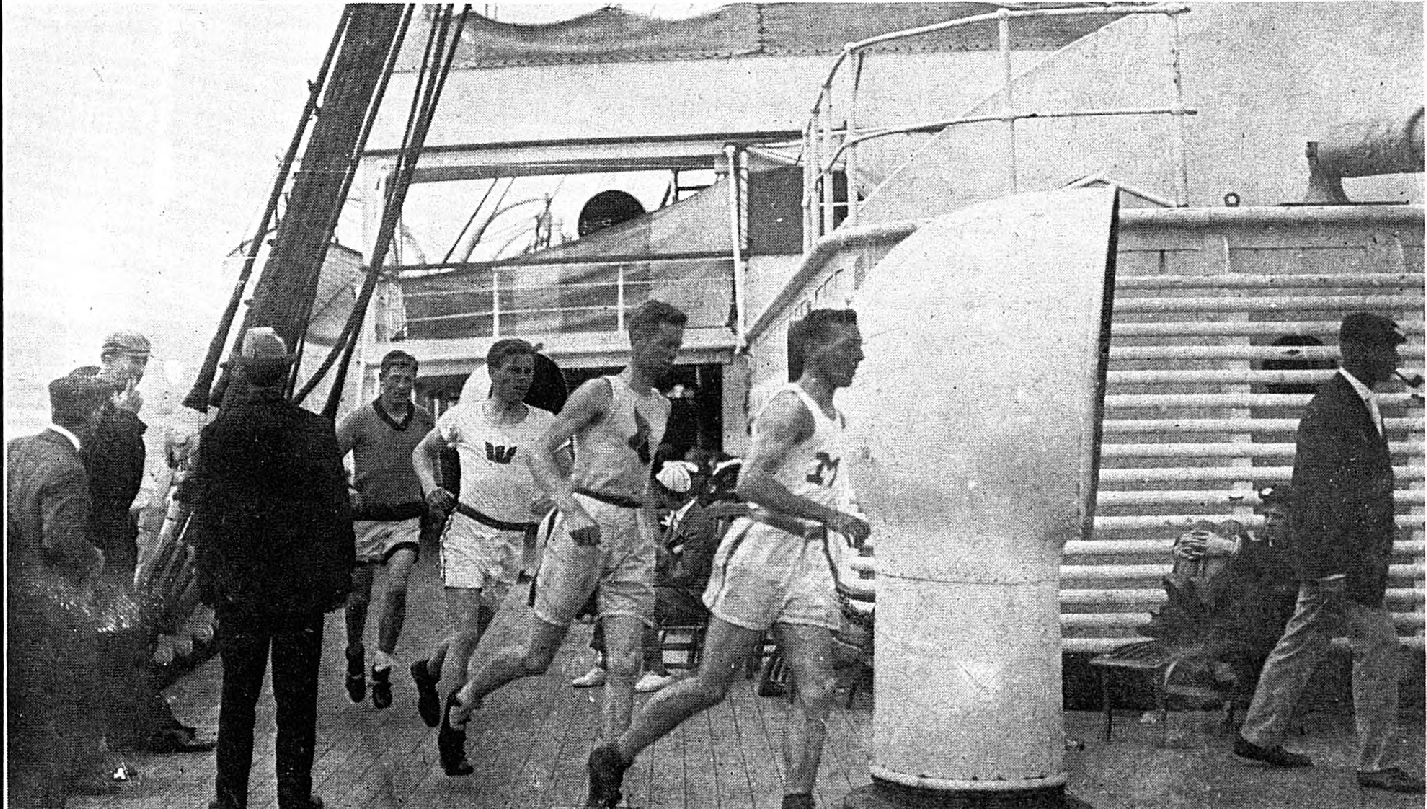 Photograph of Gayle Dull (in lead with "M" on chest) training on board ship headed for 1908 Summer Olympics